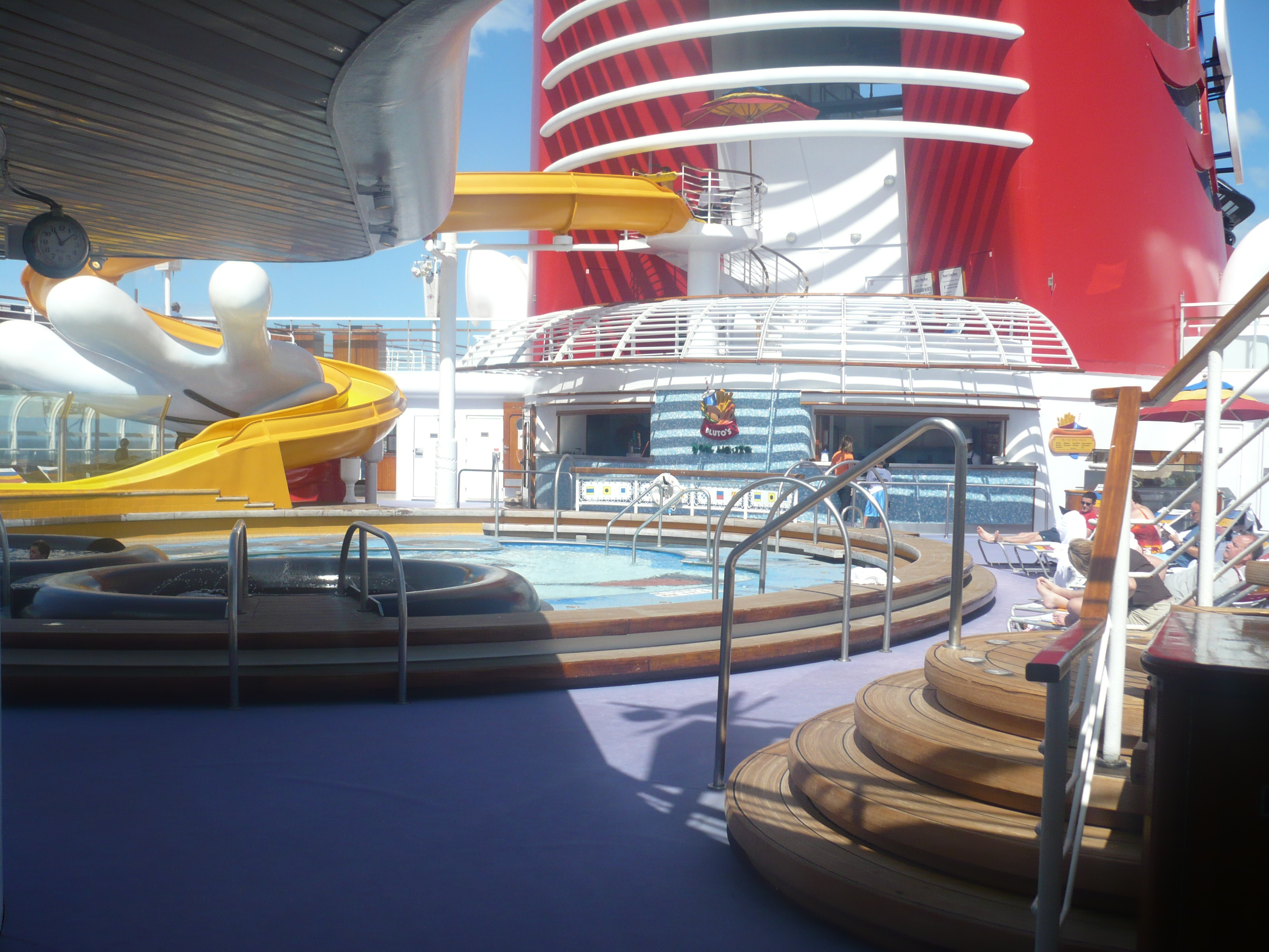 The kiddie pool of the Disney Magic